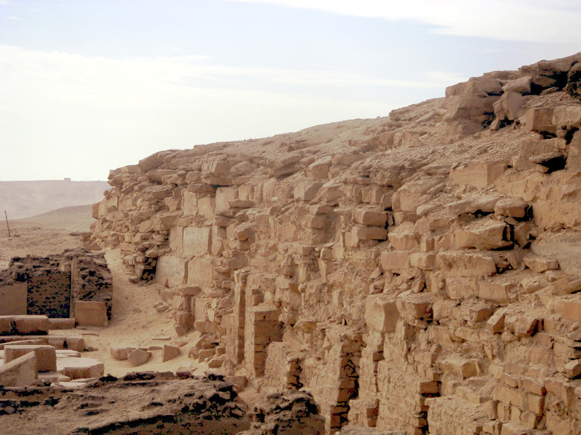 Pyramid of Neferefre, Abusir.